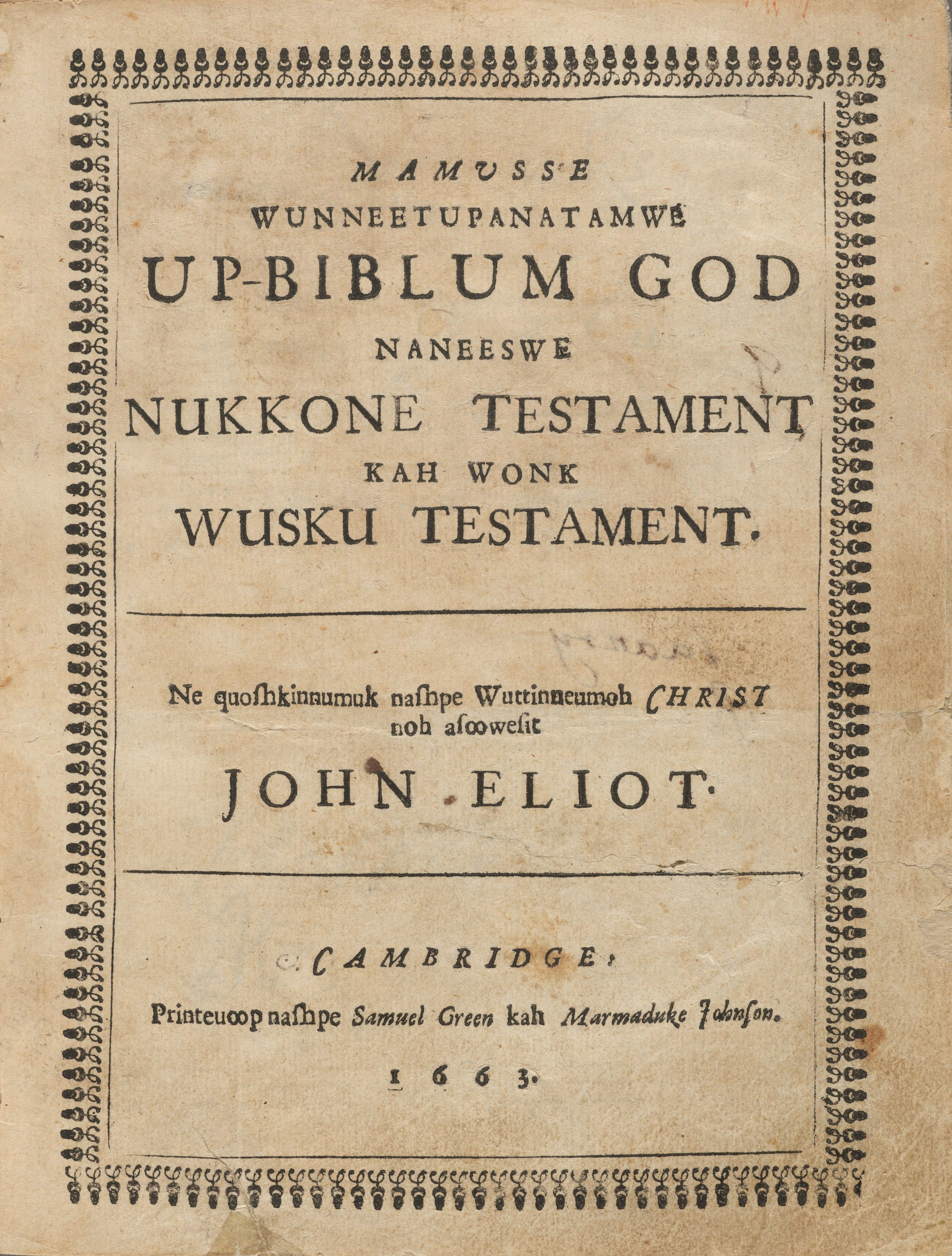 Title page from Mamusse wunneetupanatamwe Up-Biblum God naneeswe Nukkone Testament kah wonk Wusku Testament, Cambridge, MA: 1663, by John Eliot. The Eliot Indian Bible is the first Bible printed in America, translated into the Massachusett language by John Eliot. *AC6 Eℓ452 663m, Houghton Library, Harvard University